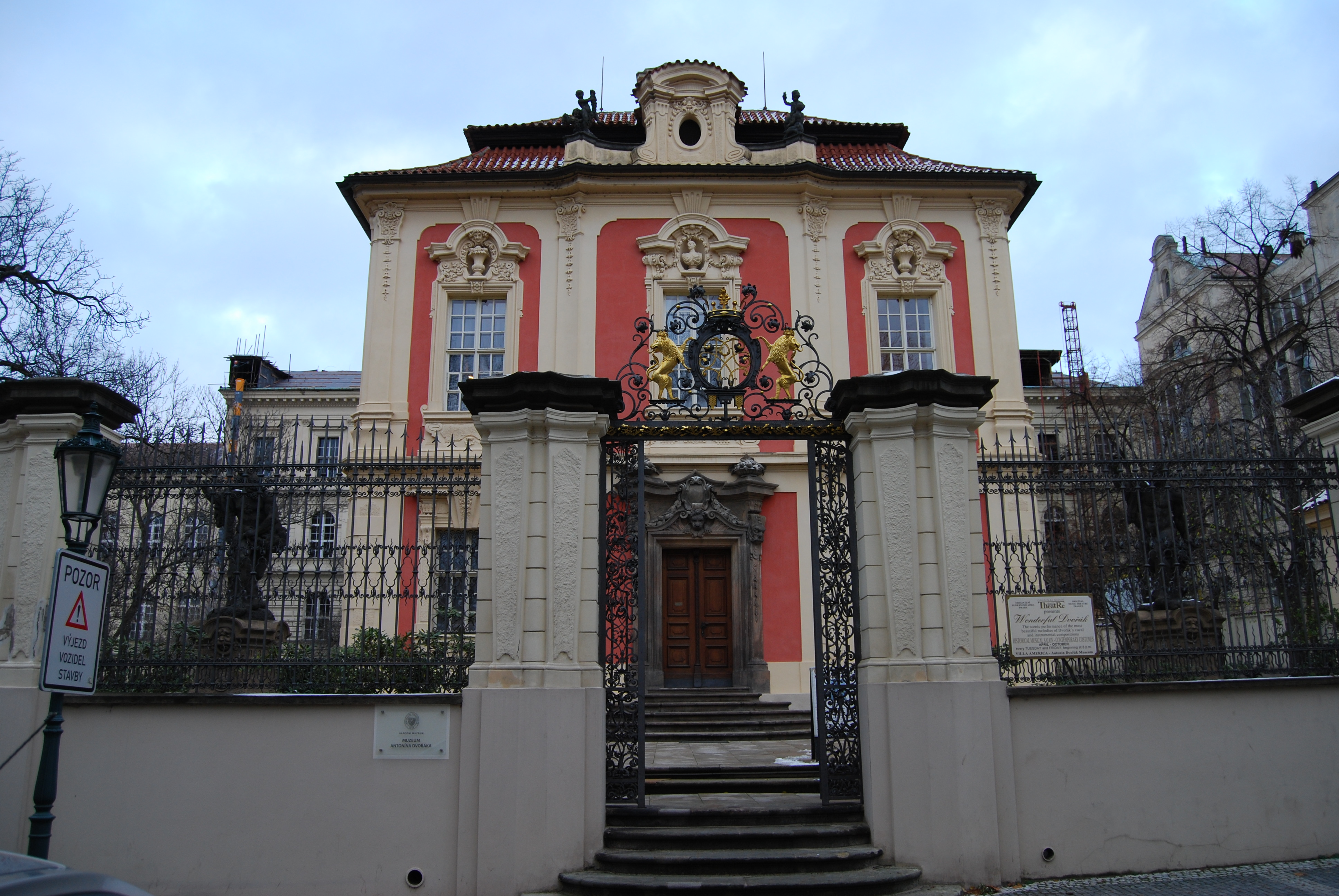 Museum of Antonín Dvořák, Prague, Czech Republic.